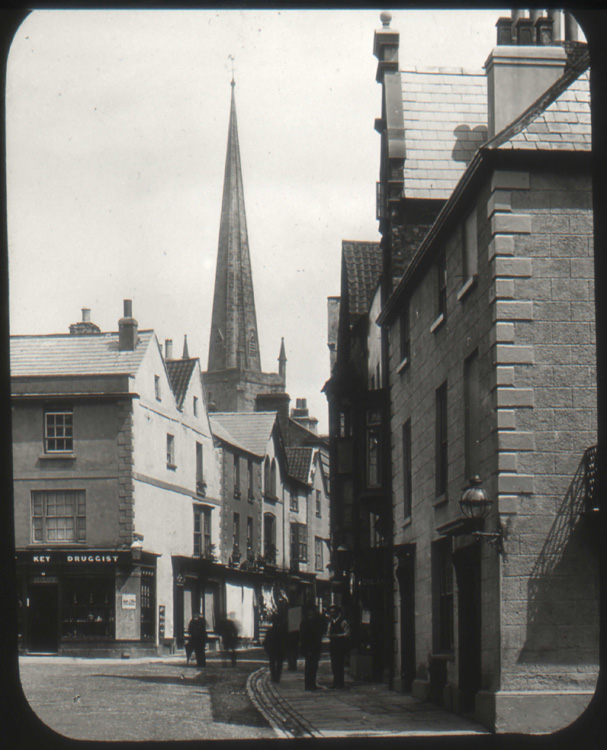 Church st. 1890-1900 from west in Agincourt square one of the collection of laternslides purchased by Welsh church fund. Monmouth Museum Identity Number: M87.4